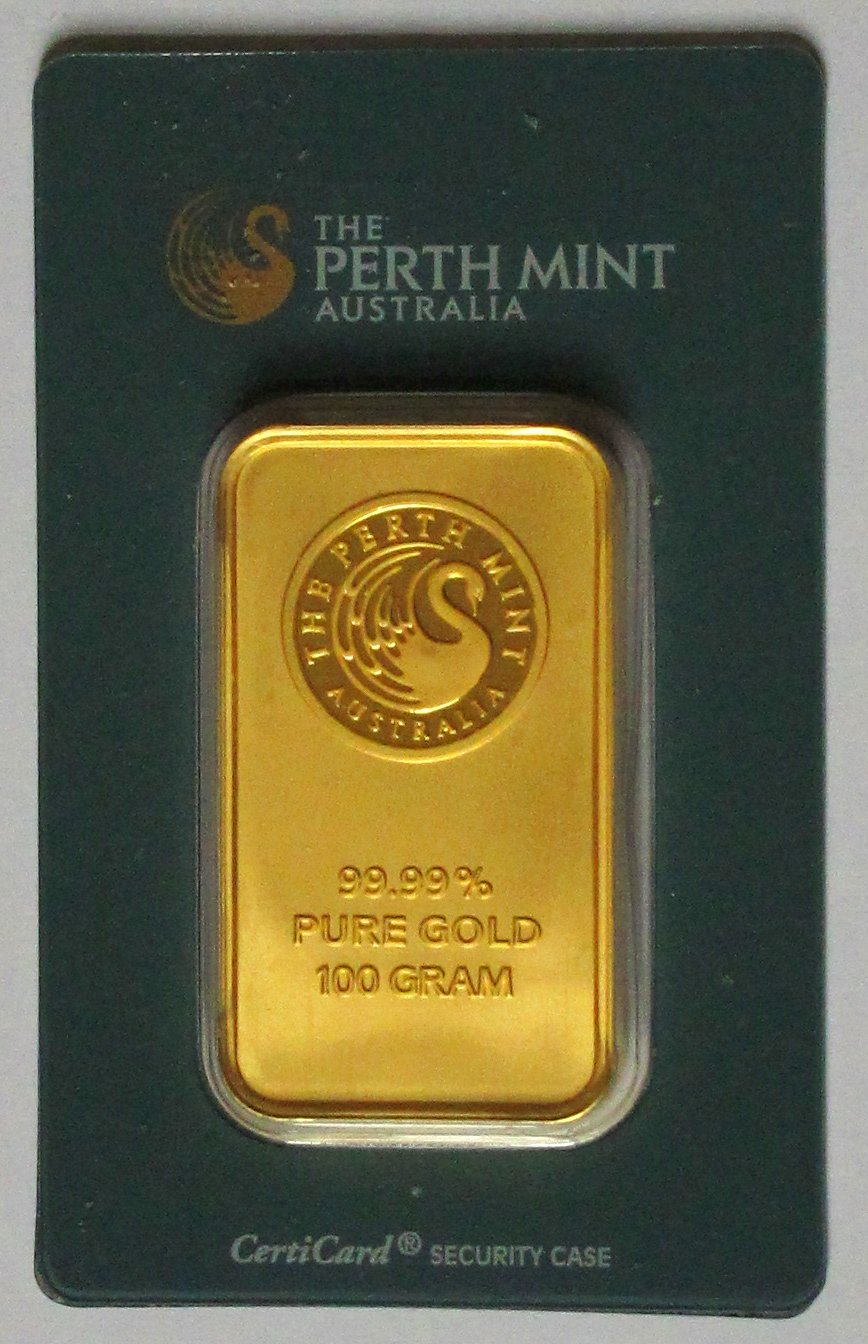 Gold Ingot from "Perth Mint" with 100 Gram and purity of 99.99%